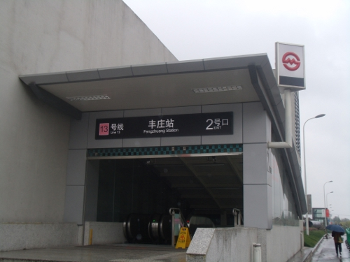 No. 2 exit of the Fengzhuang metro station in Shanghai